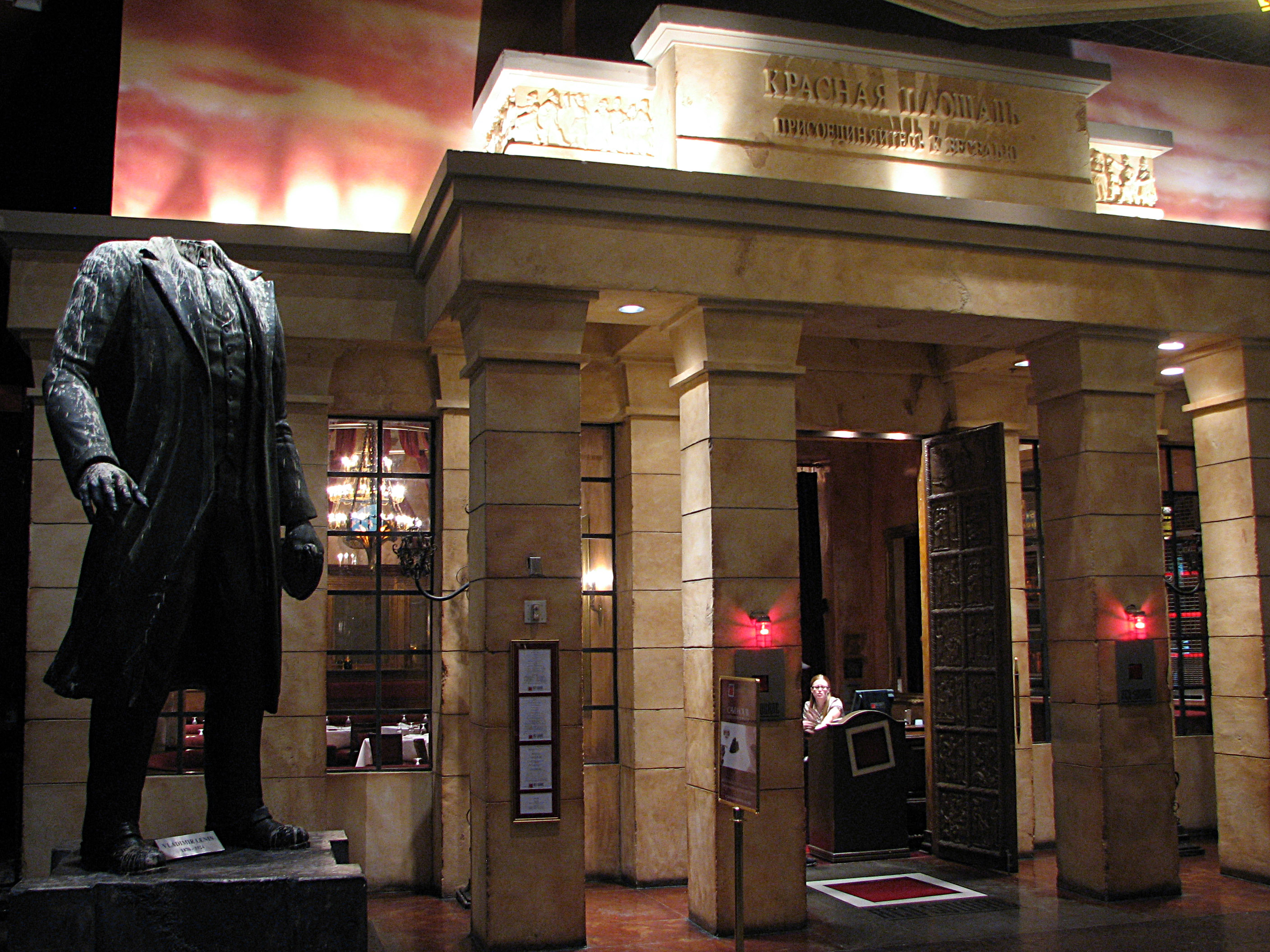 Restaurant Red Square with a decapitated statue of Vladimir Lenin inside Mandalay Bay Resort and Casino in Las Vegas, Nevada